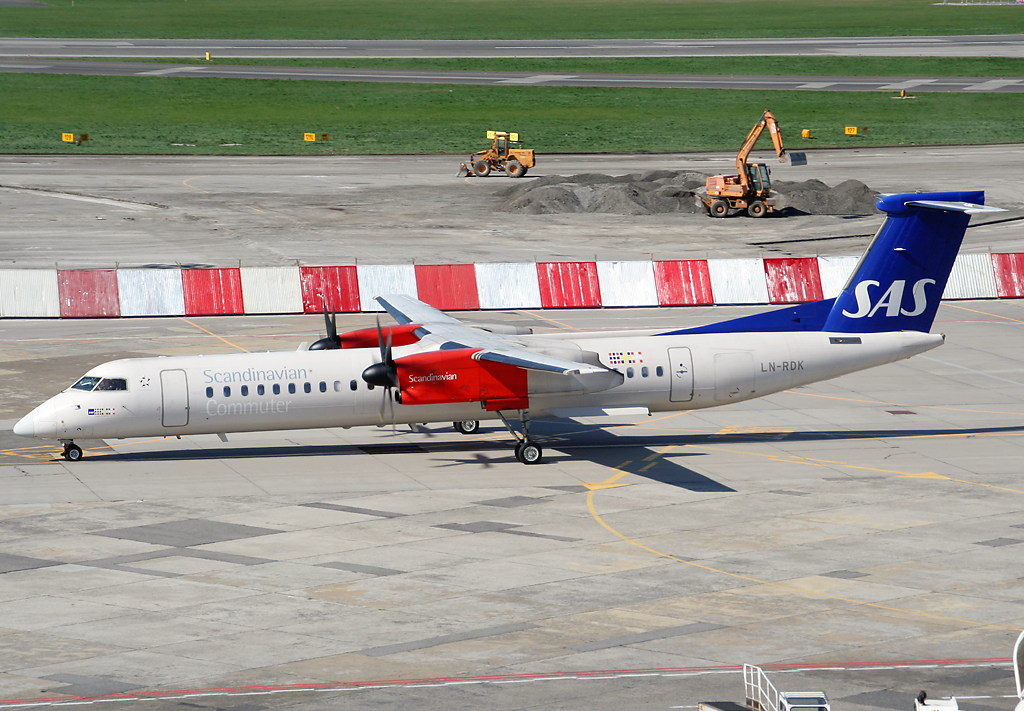 SAS de Havilland Canada Dash-8-400 LN-RDK at Warsaw-Frederic Chopin Airport